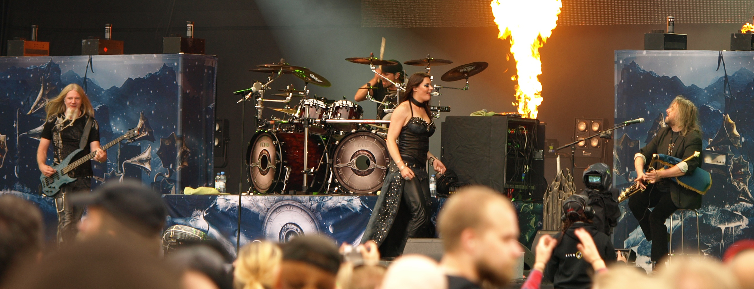 Finnish band Nightwish at Tuska Open Air 2013